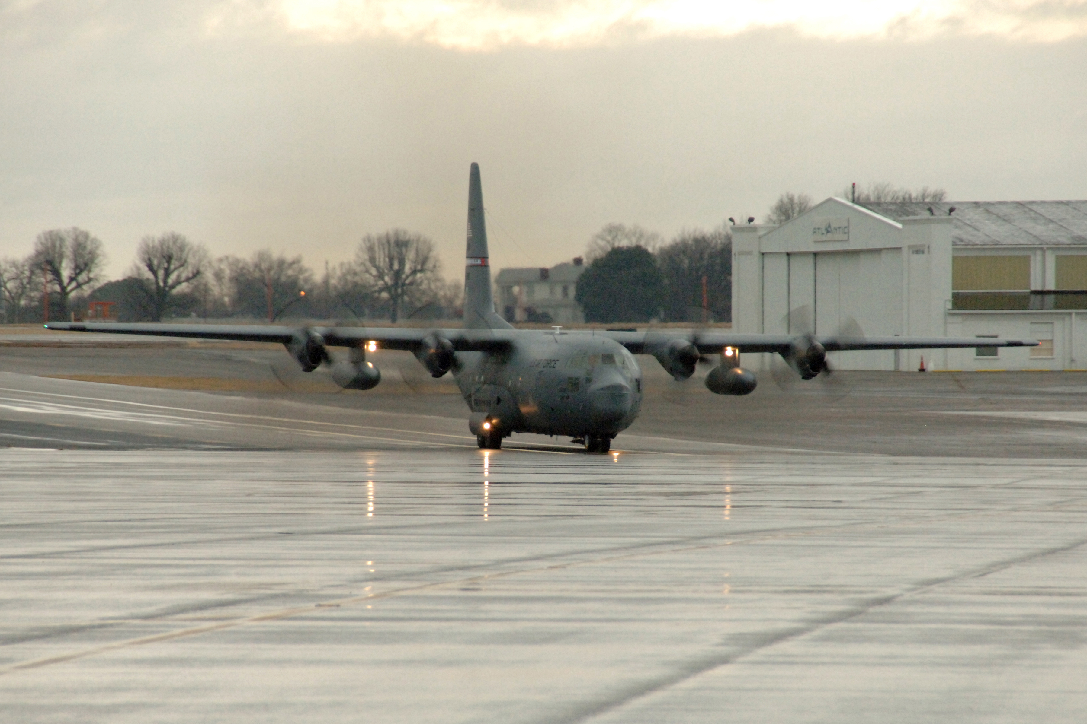 A U.S. Air Force Lockheed WC-130H Hercules from the 105th Airlift Squadron, 118th Airlift Wing, Tennessee Air National Guard, after landing taxis back onto base after being called back due to lightning within 8 km of Berry Field (Nashville International Airport), on 20 January 2010.